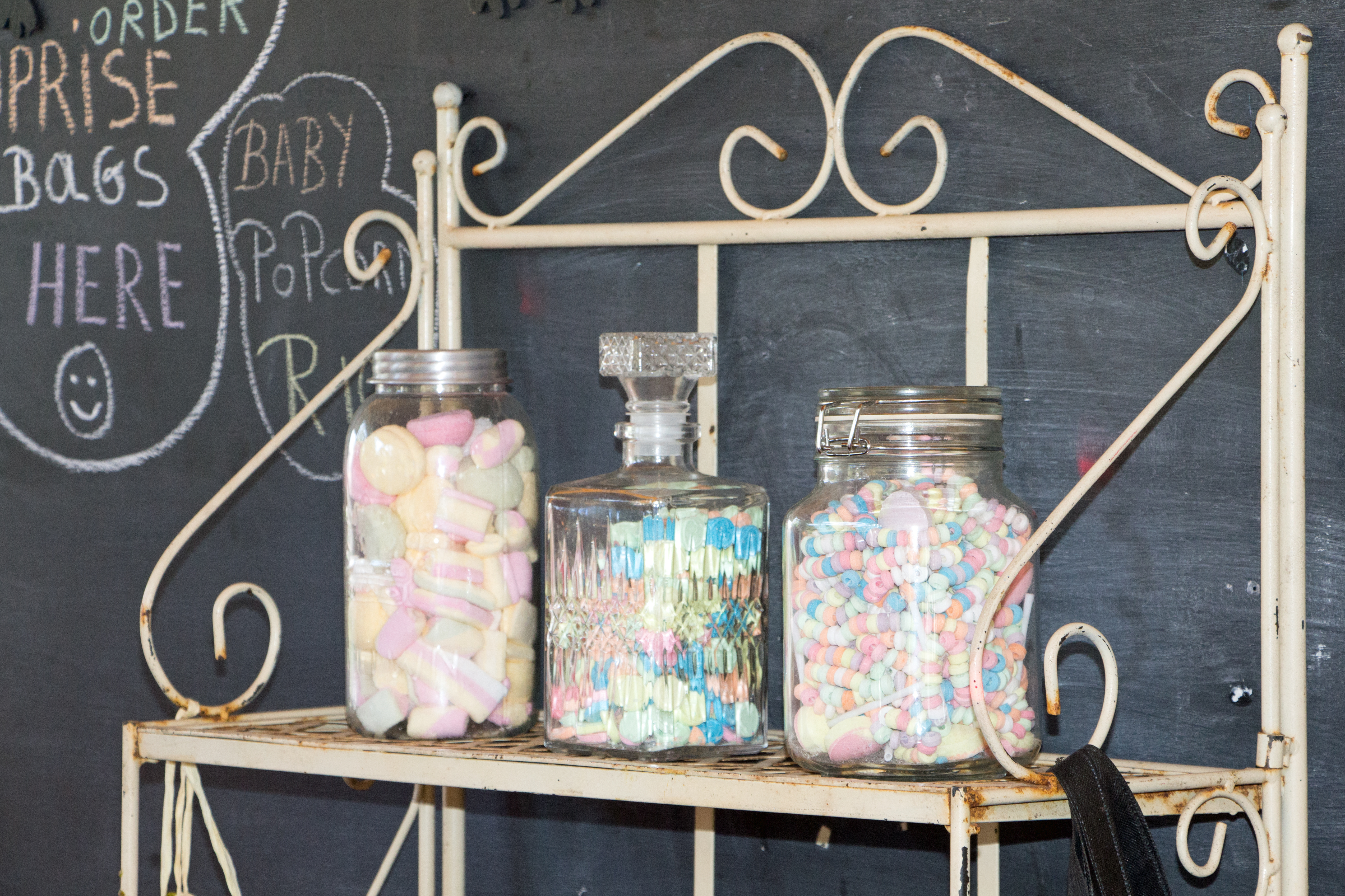 French style painted wrought iron baker's rack at candy stall in the Fun Zone of Root44 Market, Stellenbosch, South Africa